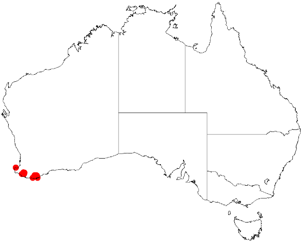 Scaevola auriculata Occurrence data downloaded from Australasian Virtual Herbarium on 12 May 2019